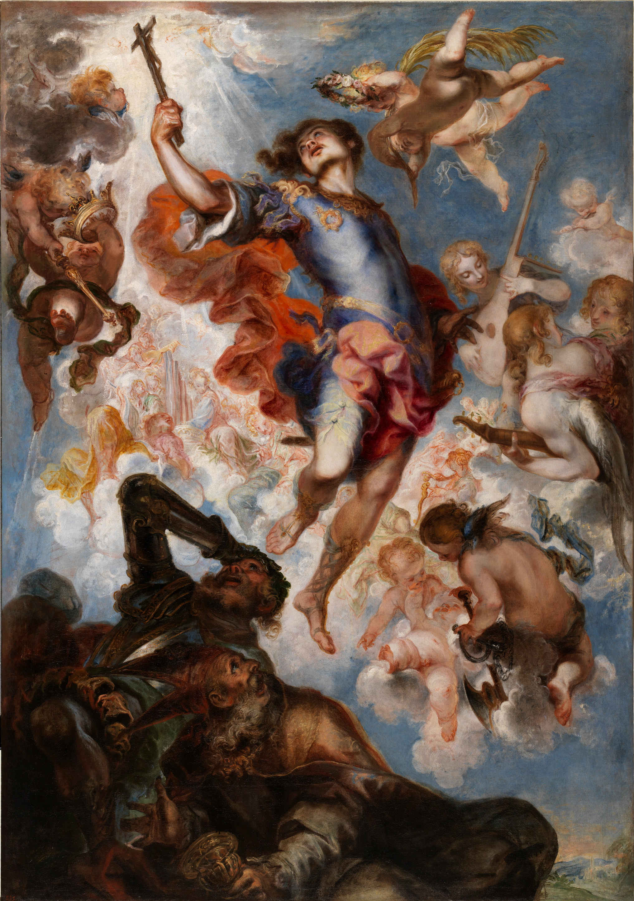 The Triumph of St Hermengild